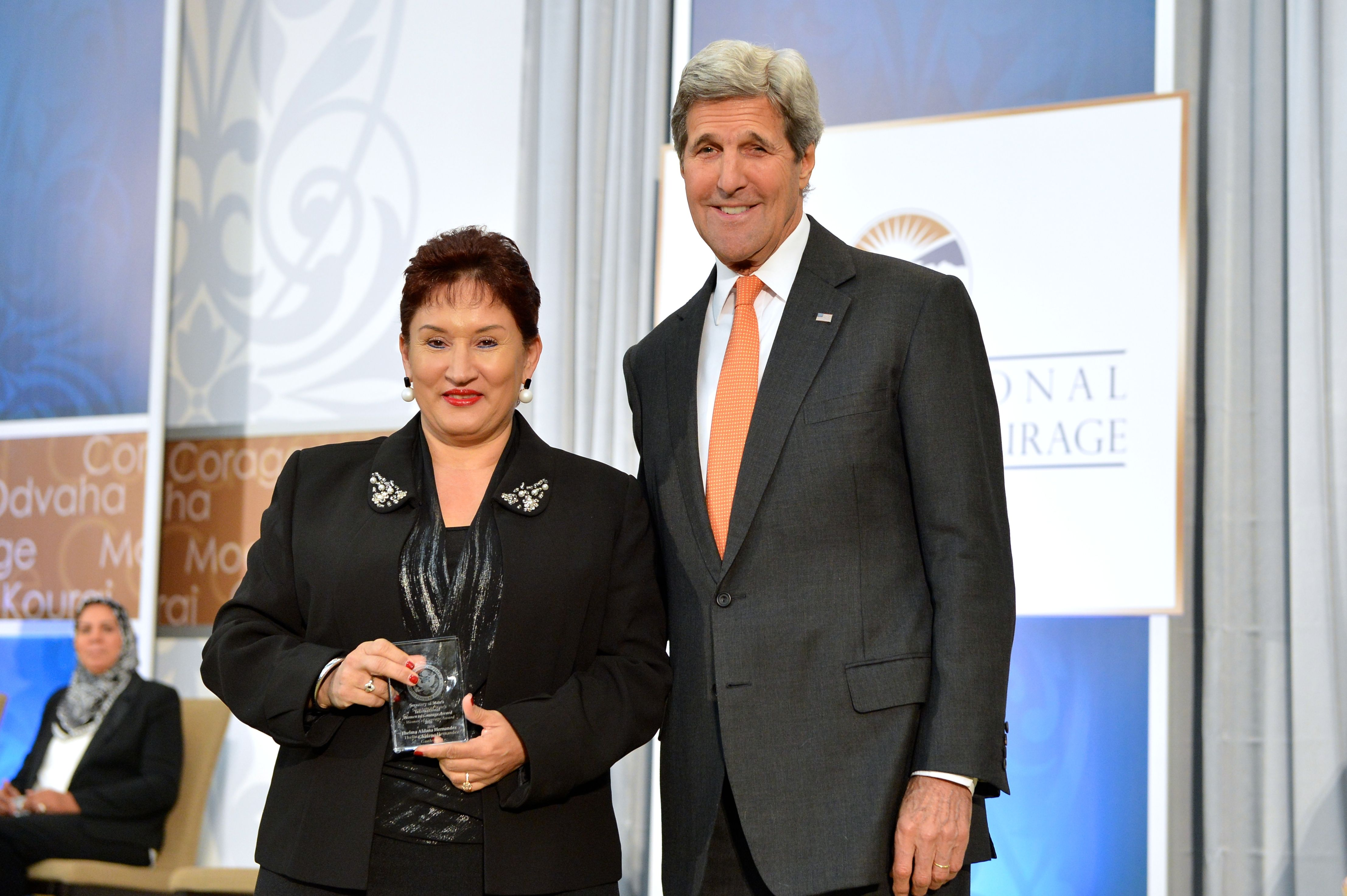 U.S. Secretary of State John Kerry presents the 2016 International Women of Courage Award to Thelma Aldana of Guatemala, Attorney General, at the U.S. Department of State in Washington, D.C., on March 29, 2016. [State Department photo/ Public Domain]